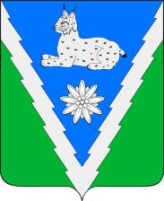 Coat of arms of Mezmai, Apsherosnk, Krasnodar, Russia.